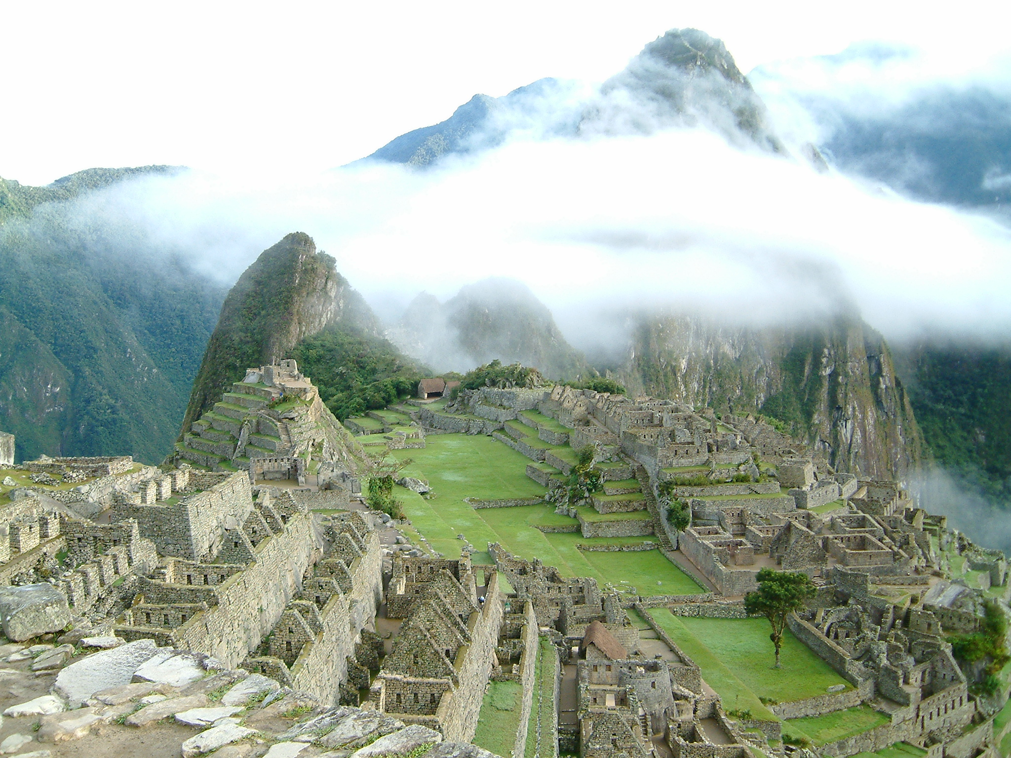 Allard Schmidt: "This picture was taken at sunrise, after hiking ahead of the group towards Machu Picchu I found Machu Picchu empty, Wayne Pichu was covered in clouds."